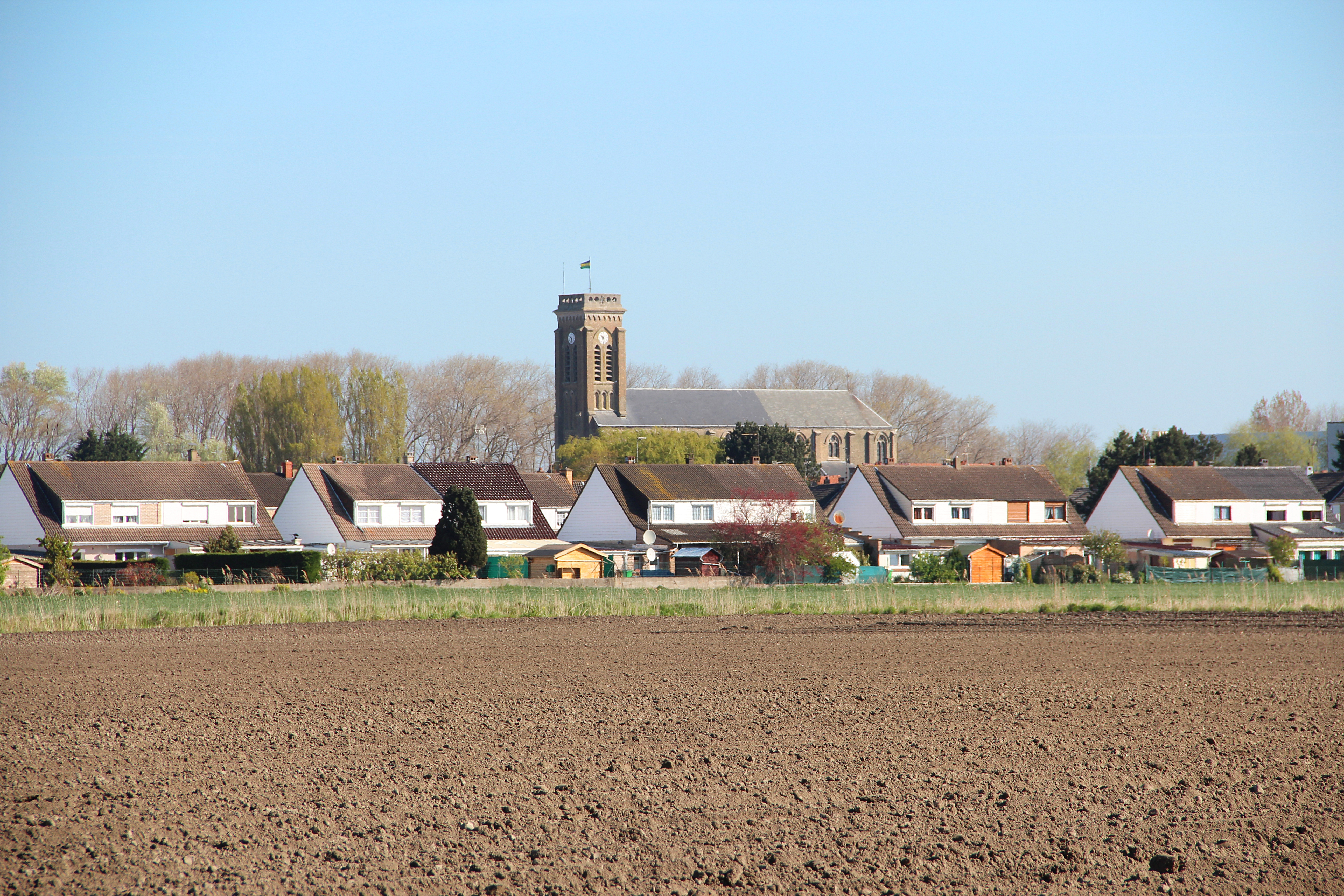 South of the comune of Bray-Dunes seen from the rue Pierre Decock (Nord department, France).